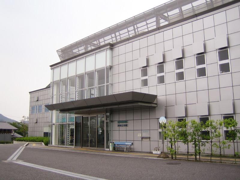 Otowa Town Library (音羽町図書館), now Toyokawa City Otowa Library (豊川市音羽図書館), located at 250, Matsumoto, Akasaka-cho, Toyokawa, Aichi, Japan